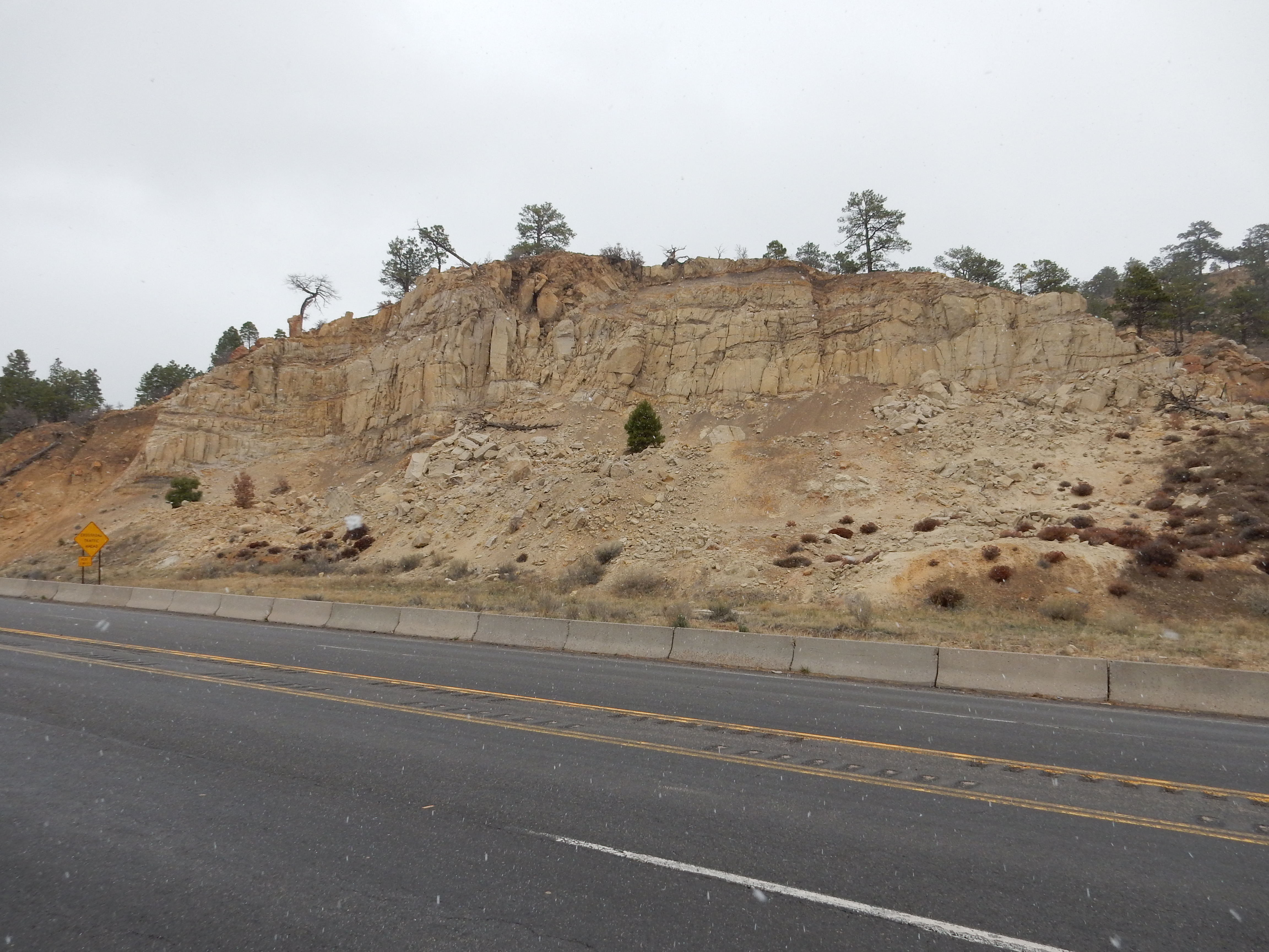 This image shows a road cut in the San Jose Formation near Cuba, New Mexico, USA. The San Jose Formation is an Eocene formation notable for its fossils.